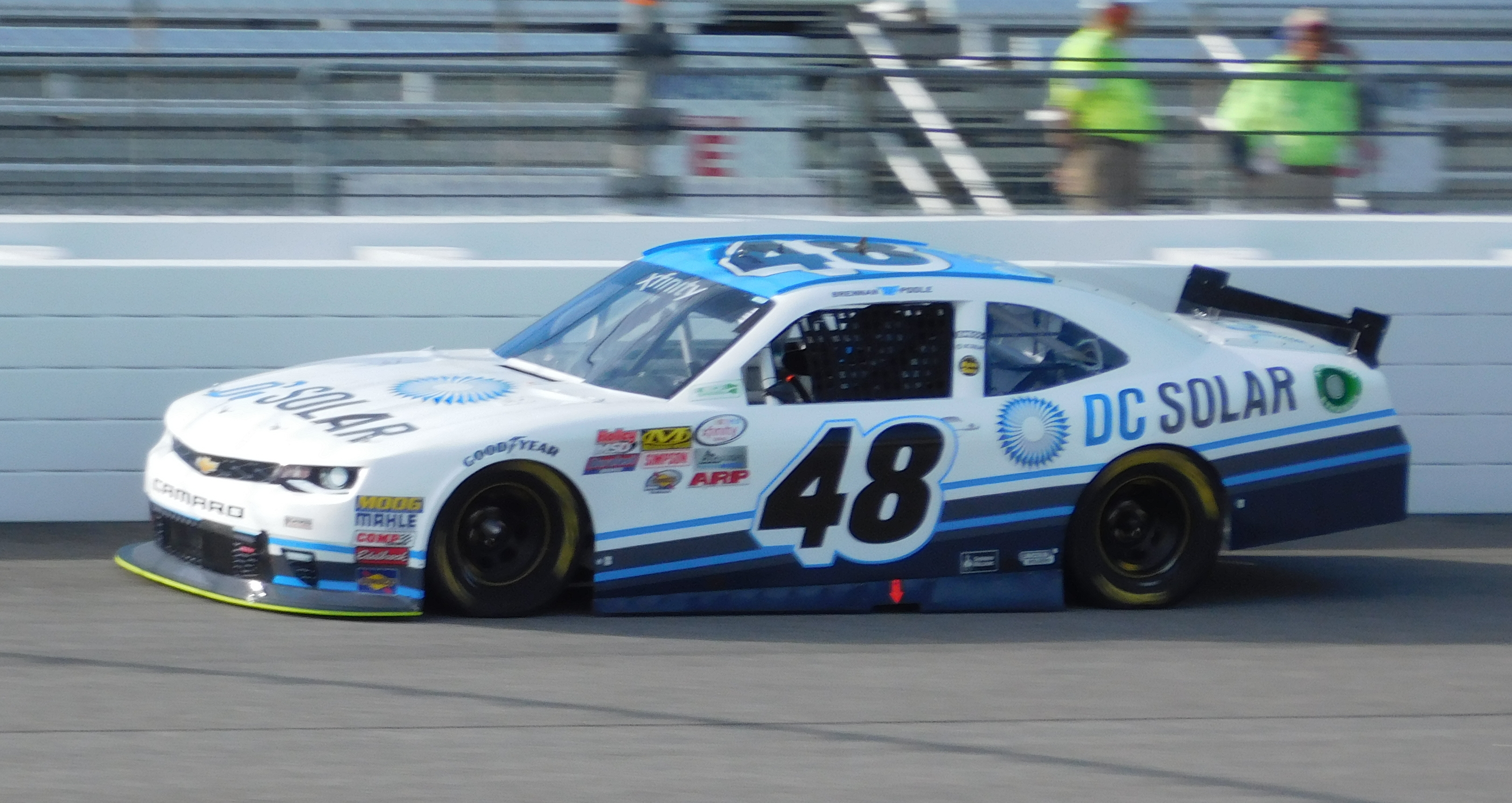 Brennan Poole's No. 48 DC Solar Chevrolet at Richmond International Raceway in 2016